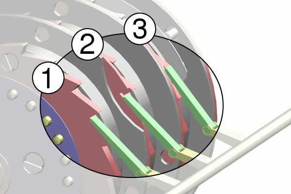 Illustration of the ratchet mechanism of an Enigma machine rotor. Created by User:Wapcaplet in Blender with labels and effects in the GIMP. Stepping motion of the Enigma. All three ratchet pawls (green) push in unison. In the first rotor (1), the ratchet (red) is always engaged, and steps with each keypress. Here, the second rotor (2) is engaged because the notch in the first rotor is aligned with the pawl; it will step with the next keypress. The third rotor (3) is not engaged, because the notch in the second rotor is not aligned; the pawl will simply slide over the curved ring.